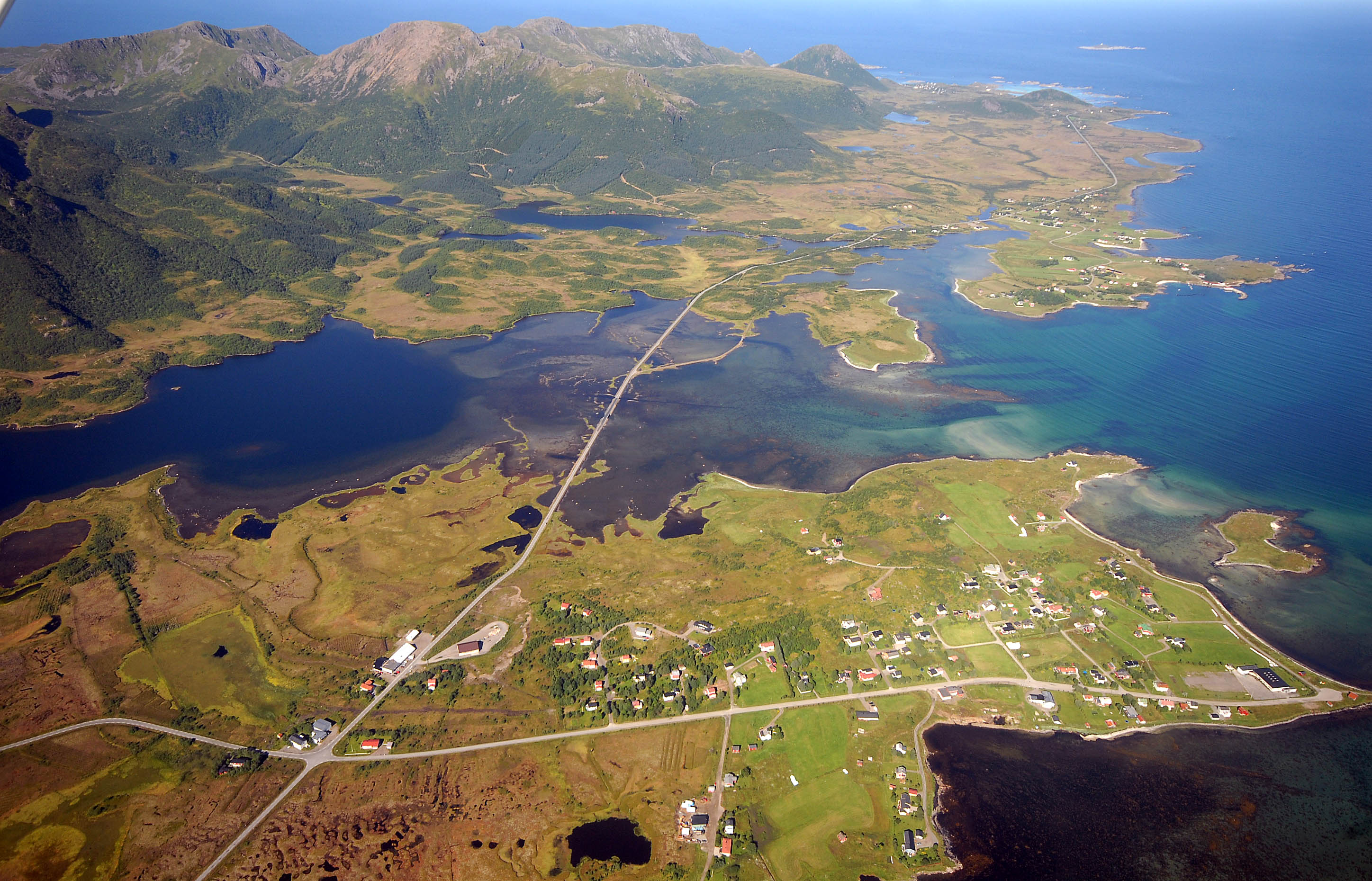 Strengelvåg in Øksnes municipality, Nordland, Norway